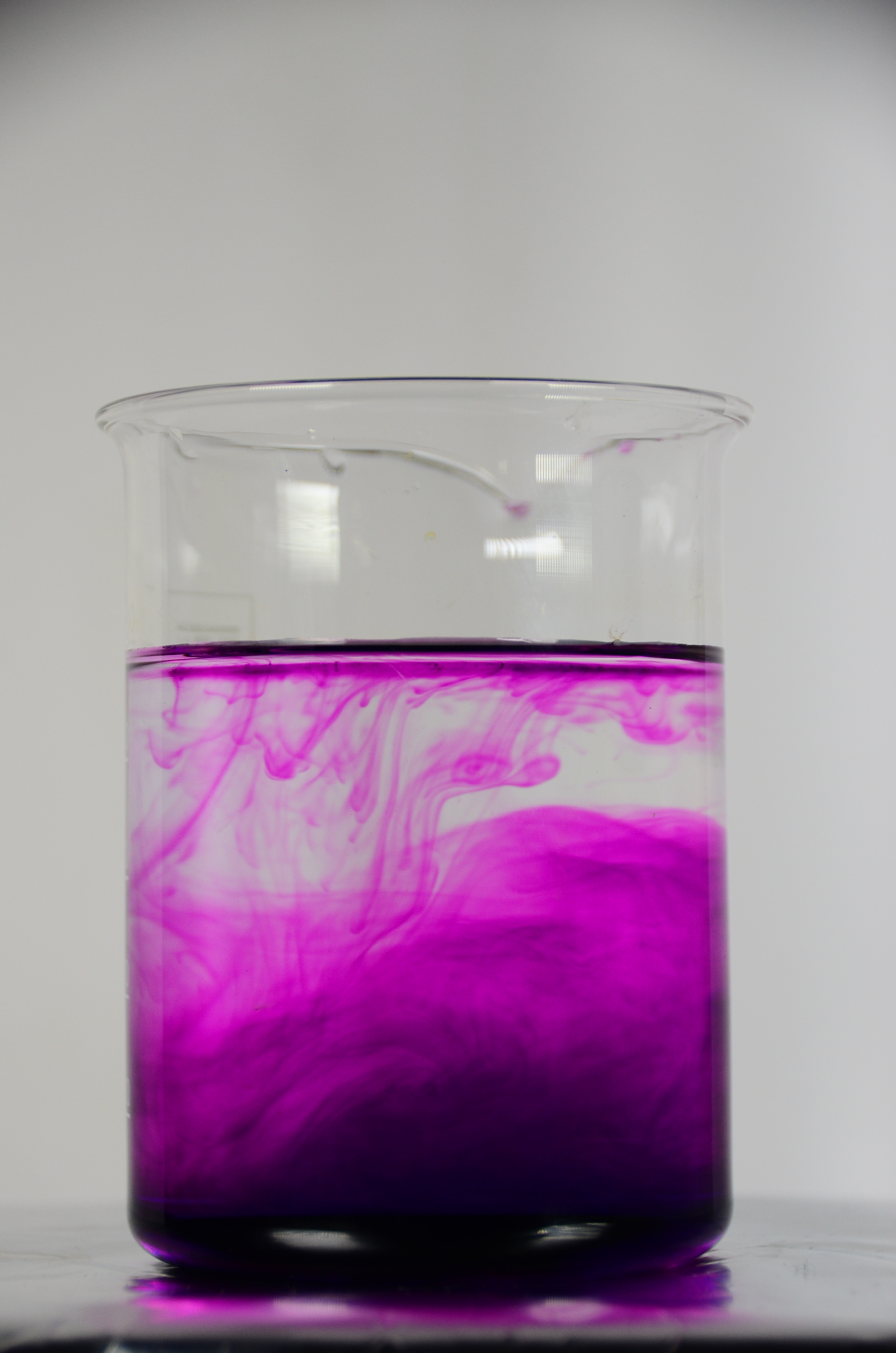 KMnO4 diffusion